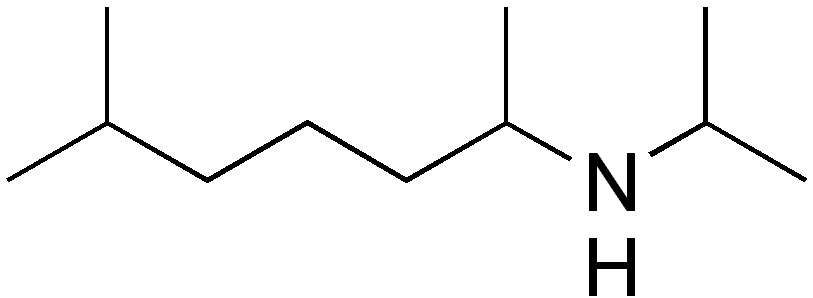 chemical structure of Iproheptine